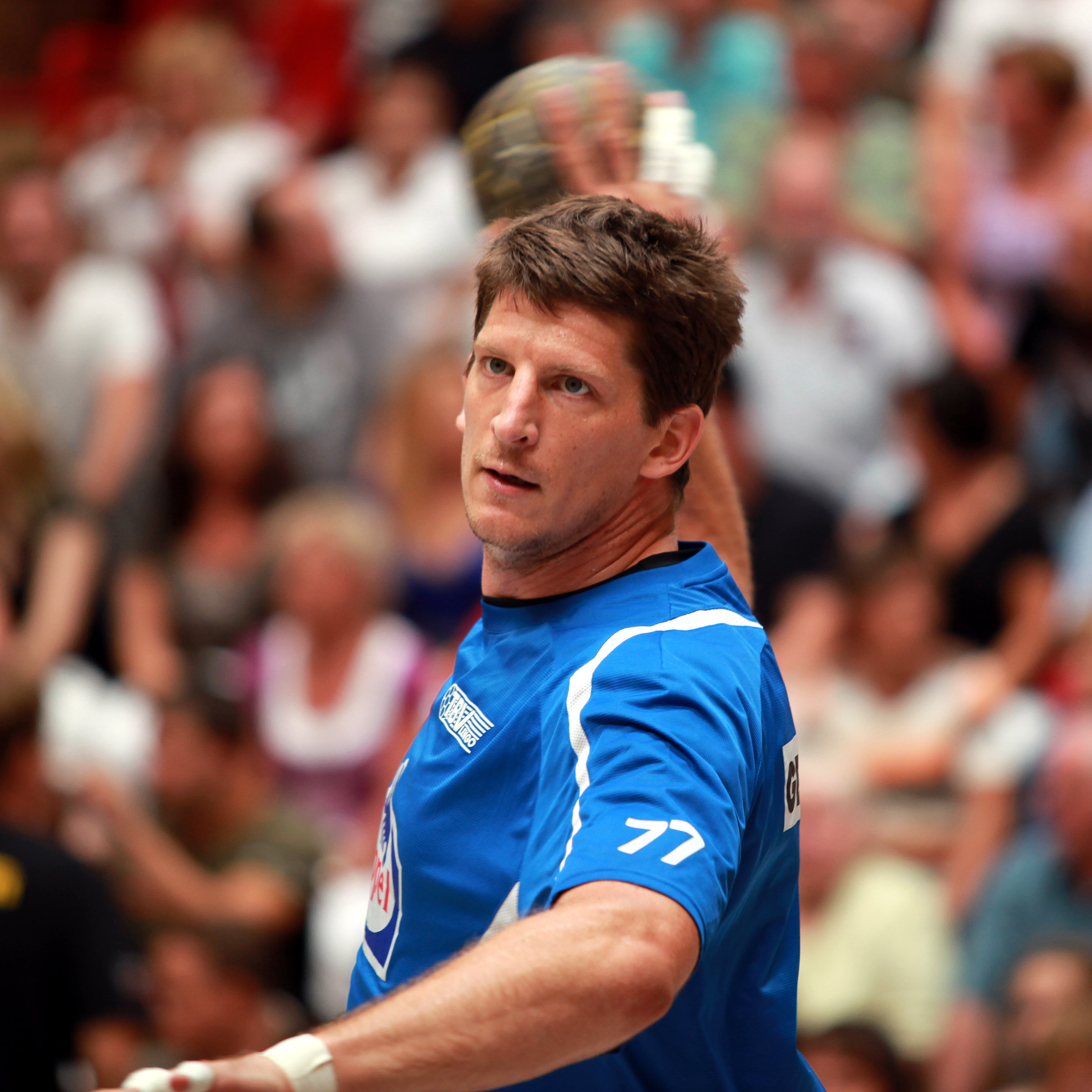 Daniel Kubeš, Czech handball player from TBV Lemgo during the Schlecker Cup 2009 in Ehingen (Germany)